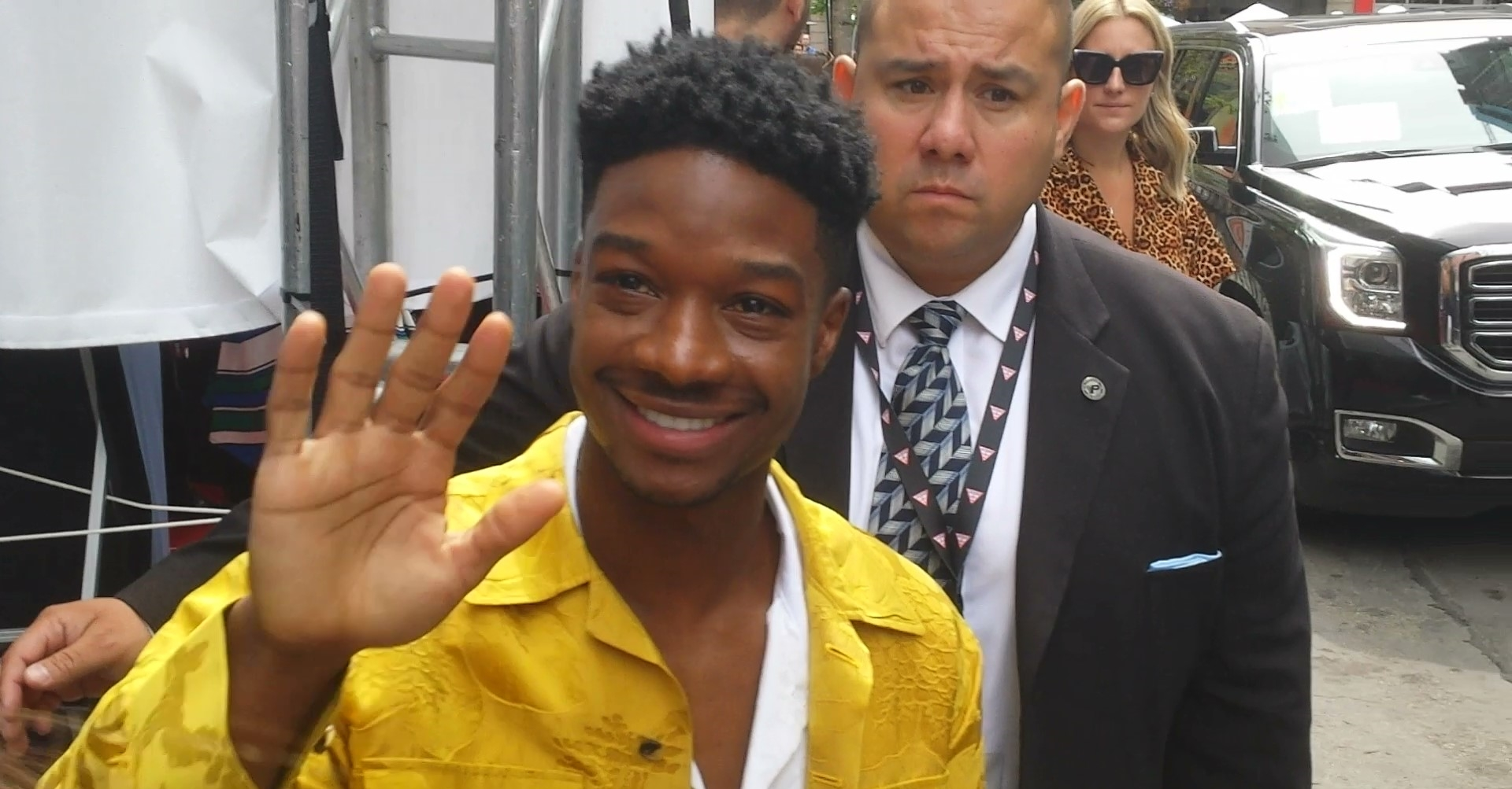 Canadian actor Lamar Johnson close-up after press conference for the moviie The Hate U Give.